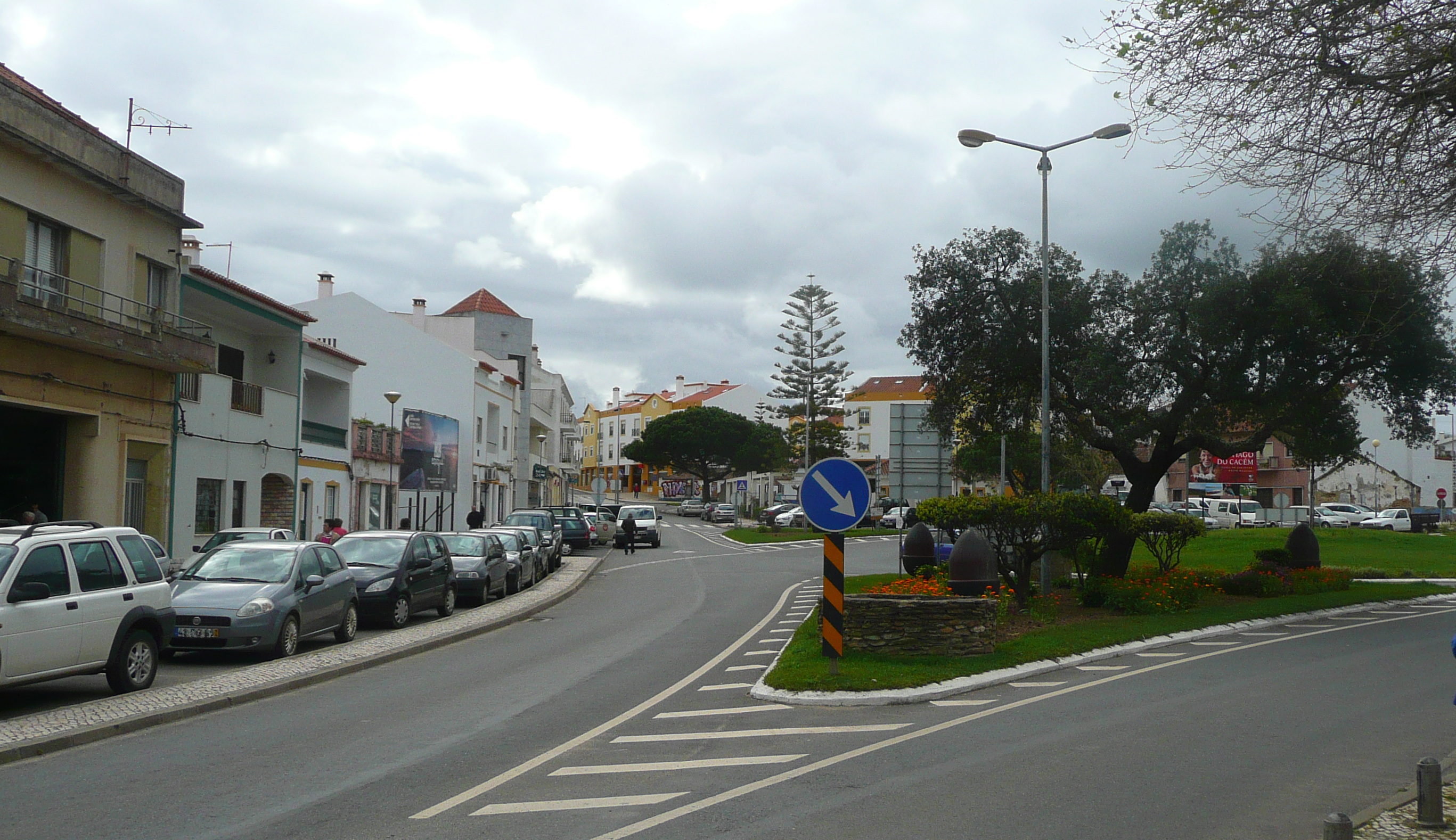 Center of Cercal do Alentejo, Santiago do Cacém, Portugal